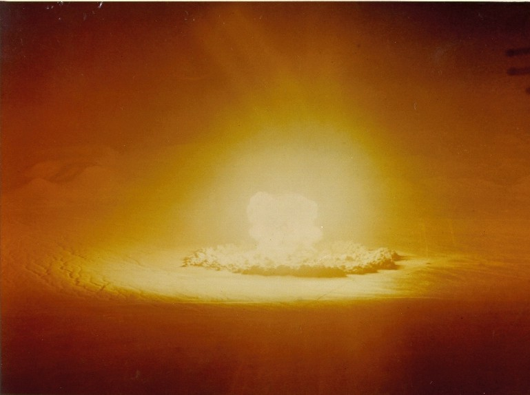 BOLTZMANN fireball, May 28, 1957, photographed 11 miles from ground zero.